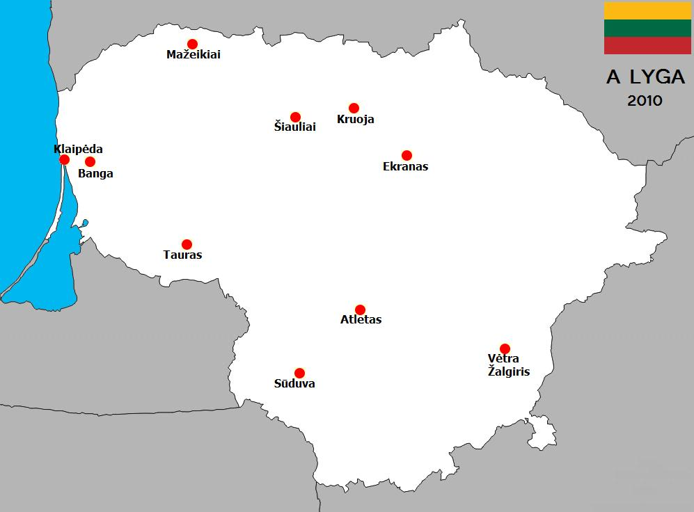 2010 A Lyga teams geographic distribution.